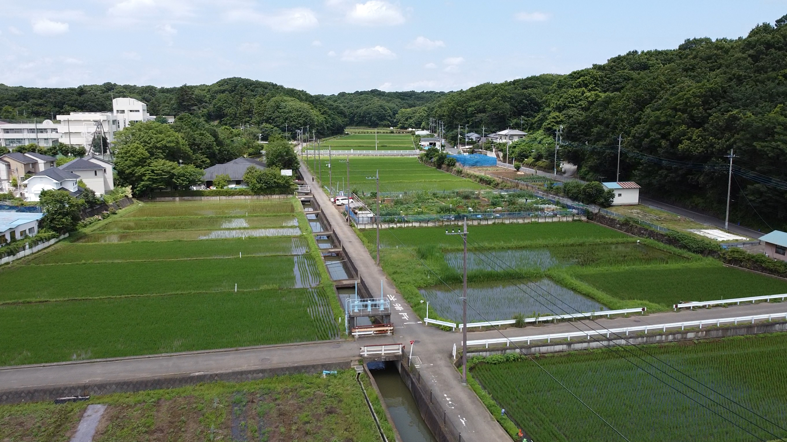 Aerial view of Jike town in Yokohama